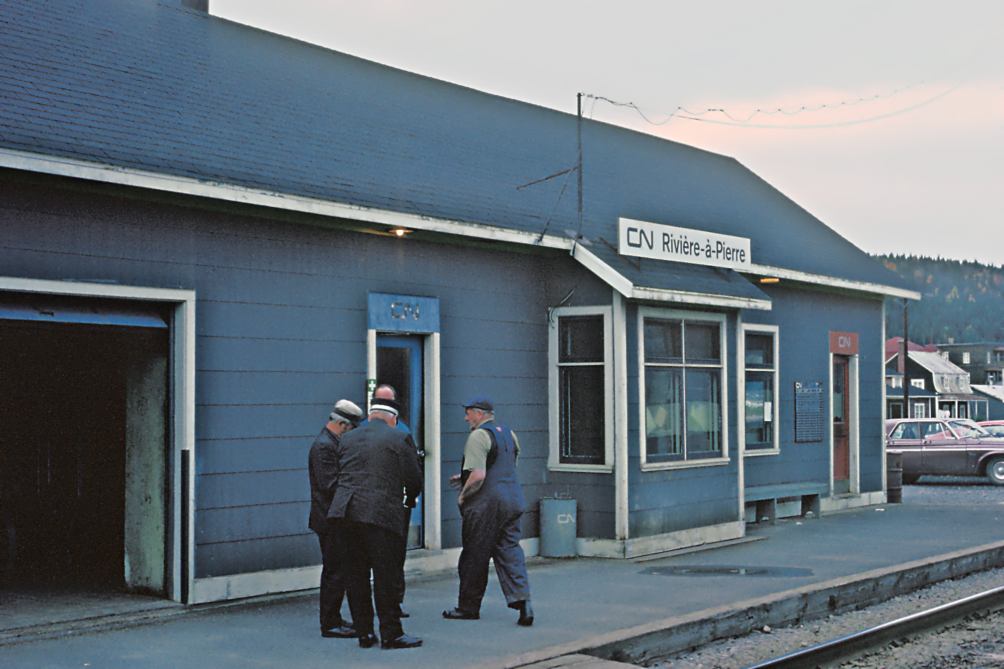 CN Riviere-a-Pierre, PQ 0n October 13, 1971. Riviere-a-Pierre, PQ is about 90 km west and a little north of Quebec City. A Roger Puta Photograph.